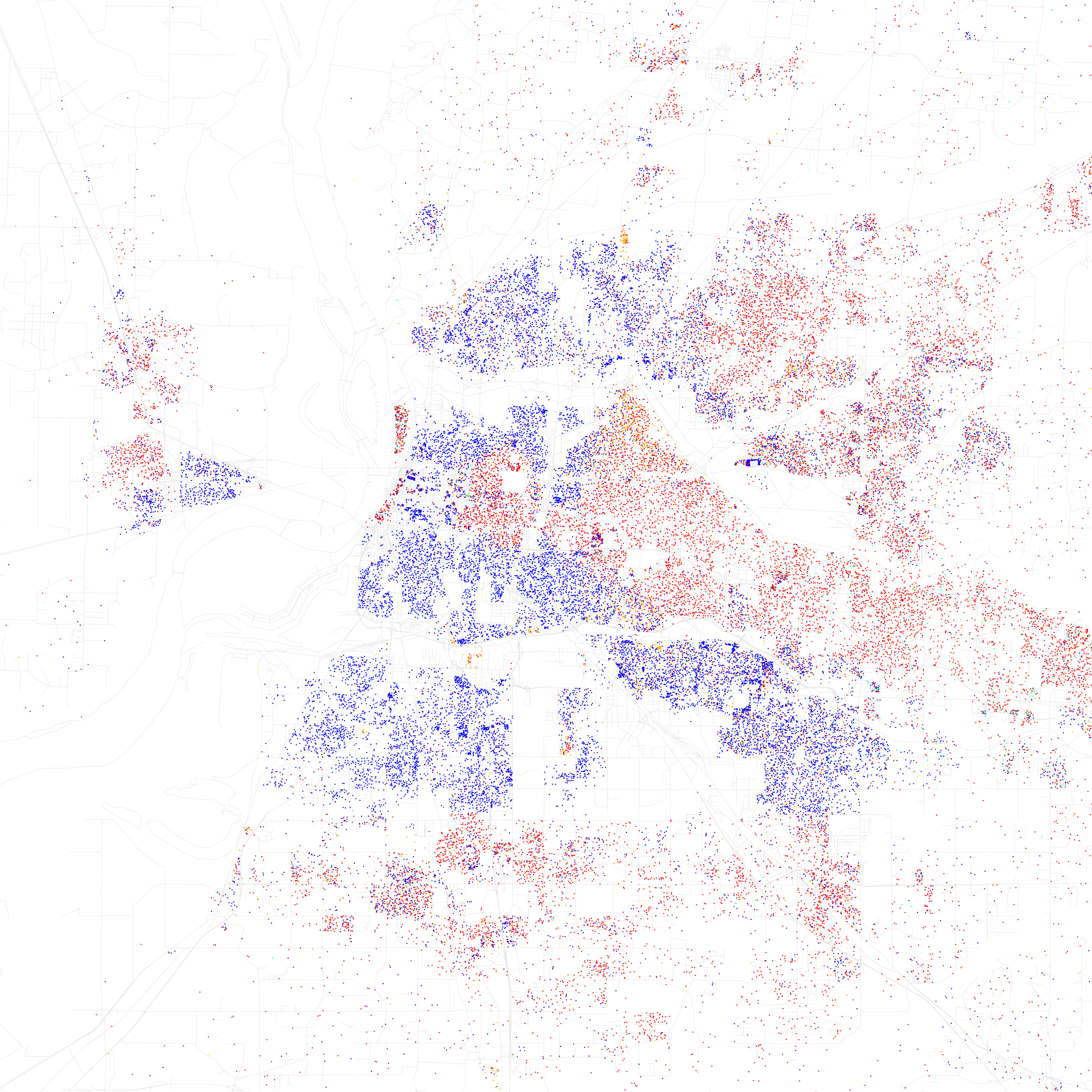 Maps of racial and ethnic divisions in US cities, inspired by Bill Rankin's map of Chicago, updated for Census 2010. Red is White, Blue is Black, Green is Asian, Orange is Hispanic, Yellow is Other, and each dot is 25 residents. Data from Census 2010. Base map © OpenStreetMap, CC-BY-SA